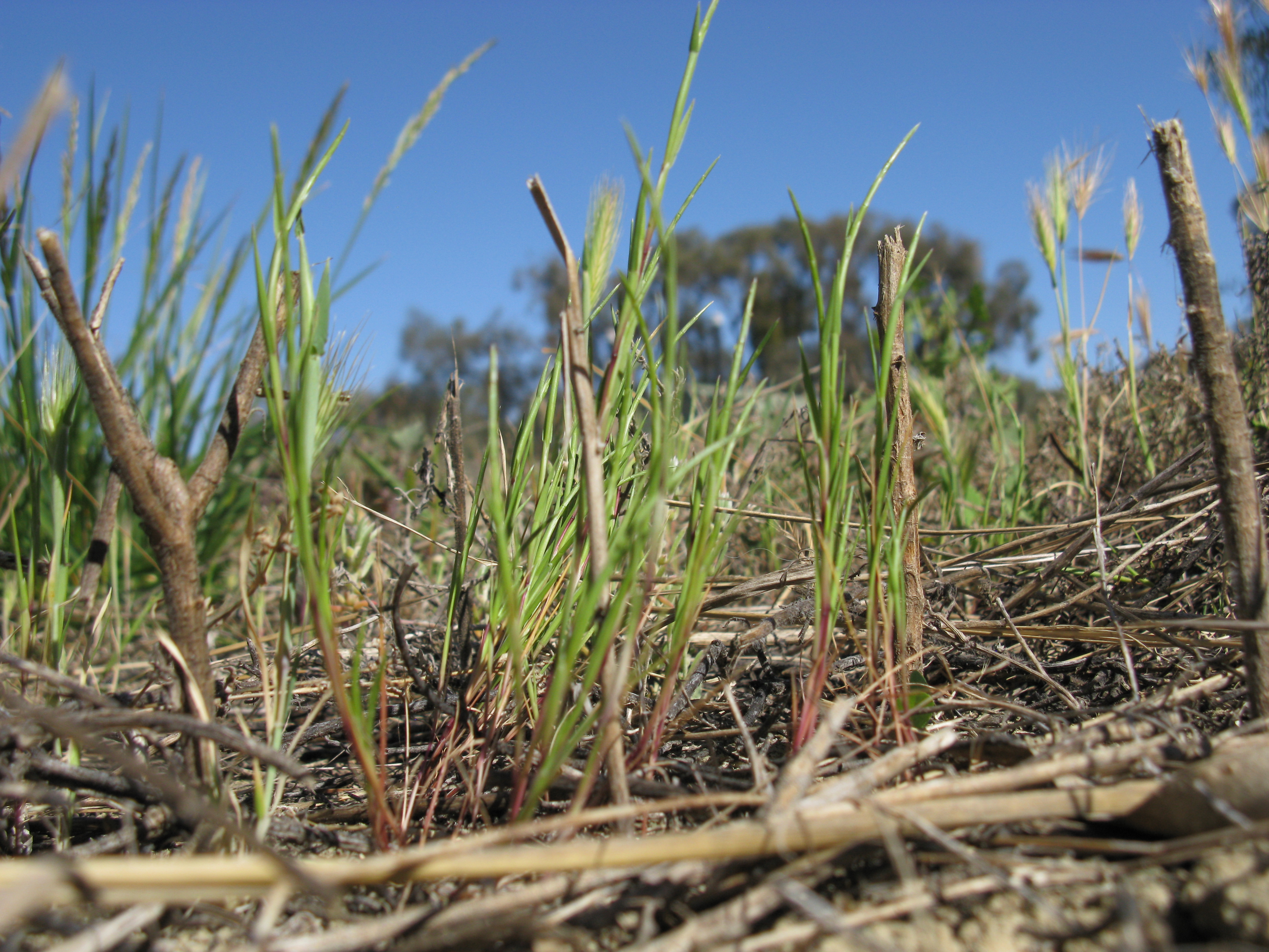 Parapholis incurva at Mildura, Victoria, Australia